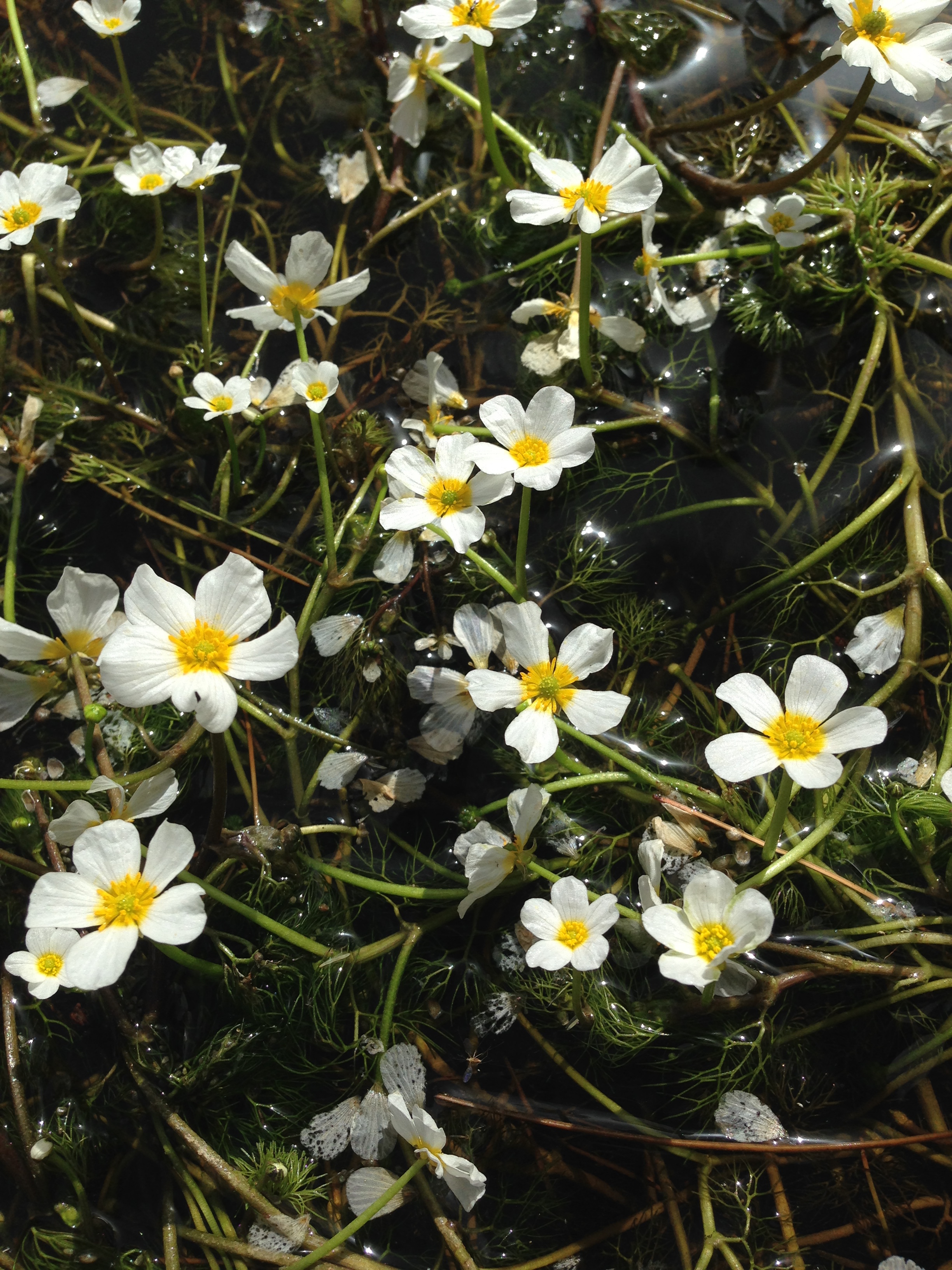 Common Water-Crowfoot (Ranunculus peltatus) in a vernal pool in Israel